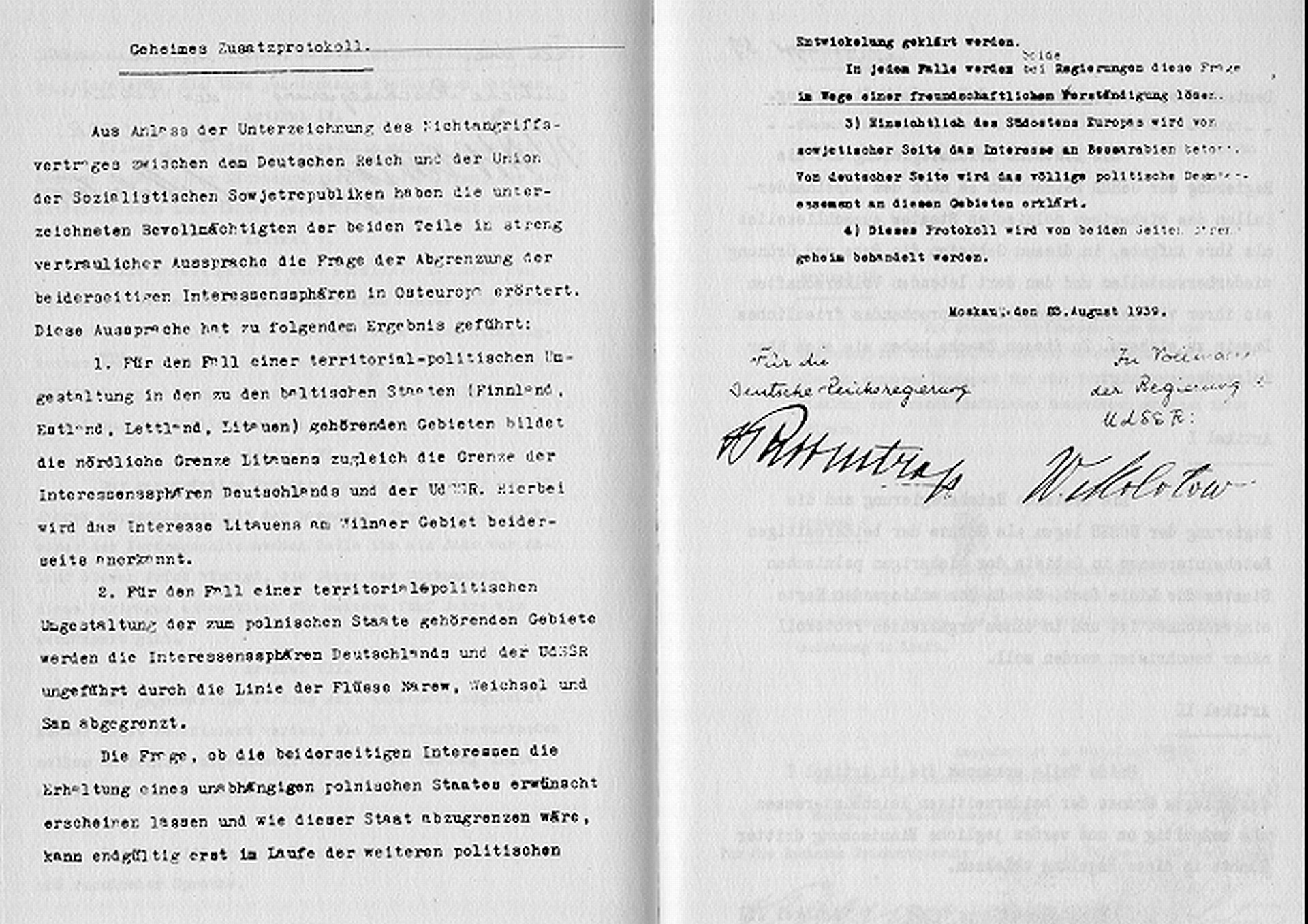 The secret appendix to the Molotov-Ribbentrop Pact naming the German and Soviet spheres of interest. The document is signed by Soviet Foreign Minister Vyacheslav Molotov and German Foreign Minister Joachim von Ribbentrop. Secret Additional Protocol. Article 1. In the event of a territorial and political rearrangement in the areas belonging to the Baltic States (Finland, Estonia, Latvia, Lithuania), the northern boundary of Lithuania shall represent the boundary of the spheres of influence of Germany and U.S.S.R. In this connection the interest of Lithuania in the Vilna area is recognized by each party. Article 2. In the event of a territorial and political rearrangement of the areas belonging to the Polish state, the spheres of influence of Germany and the U.S.S.R. shall be bounded approximately by the line of the rivers Narev, Vistula and San. The question of whether the interests of both parties make desirable the maintenance of an independent Polish States and how such a state should be bounded can only be definitely determined in the course of further political developments. In any event both Governments will resolve this question by means of a friendly agreement. Article 3). With regard to Southeastern Europe attention is called by the Soviet side to its interest in Bessarabia. The German side declares its complete political disinteredness in these areas. Article 4). This protocol shall be treated by both parties as strictly secret. Moscow, August 23, 1939. For the Government of the German Reich v. Ribbentrop Plenipotentiary of the Government of the U.S.S.R. V. Molotov [1]